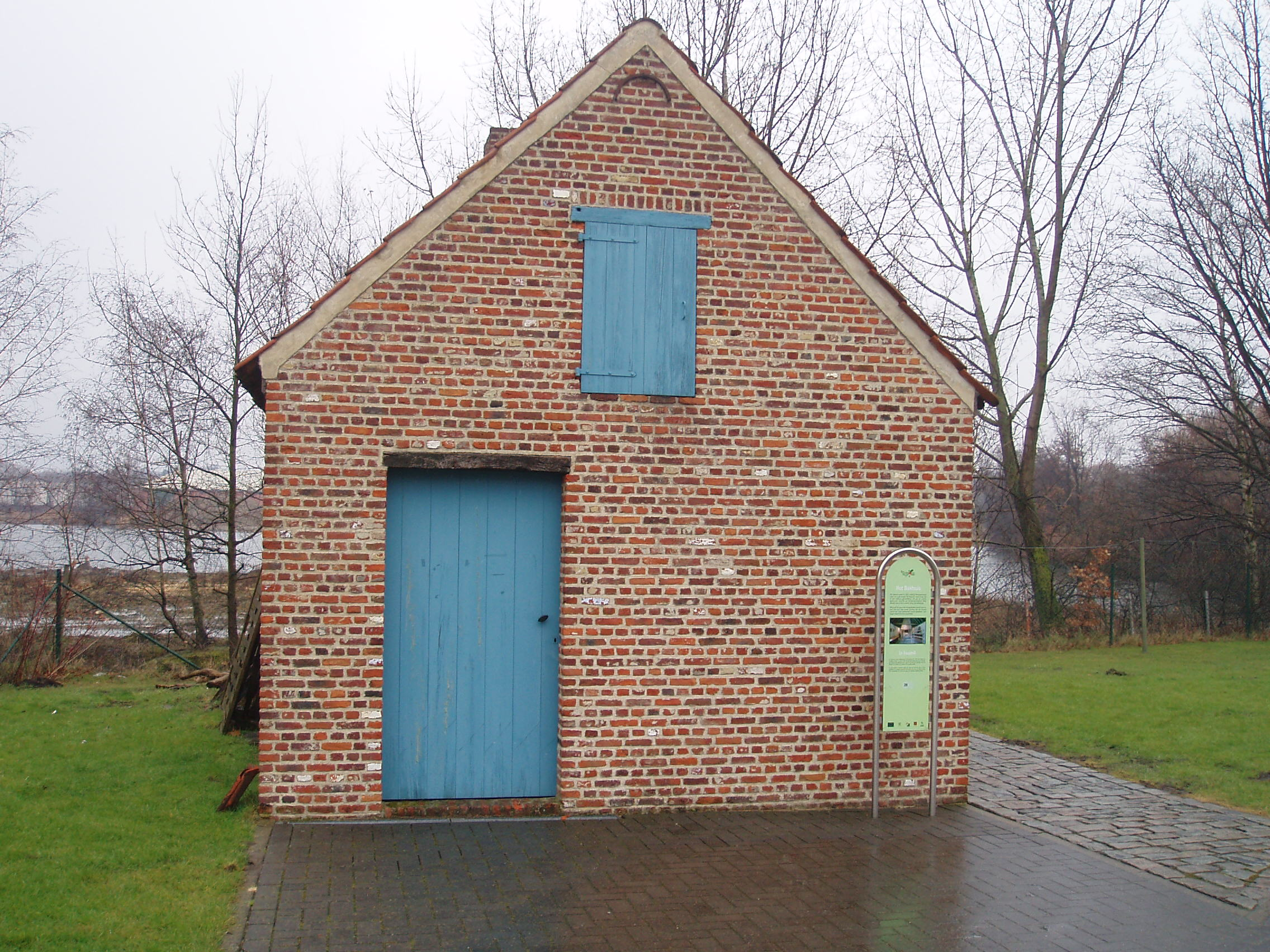 Sint-Katelijne-Waver Midzeelhoeve